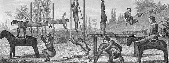 The exercises include climbing the underside of a ladder, movements on a gymnastic horse, and handstands using parallel bars. Such exercises were common in 19th Century gymnasiums.